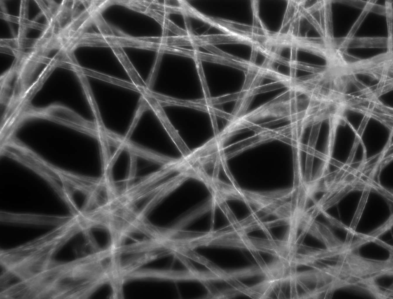 Micrograph of Whatman lens tissue paper. Dark field illumination. 10x magnification, 1.559 μm/px.